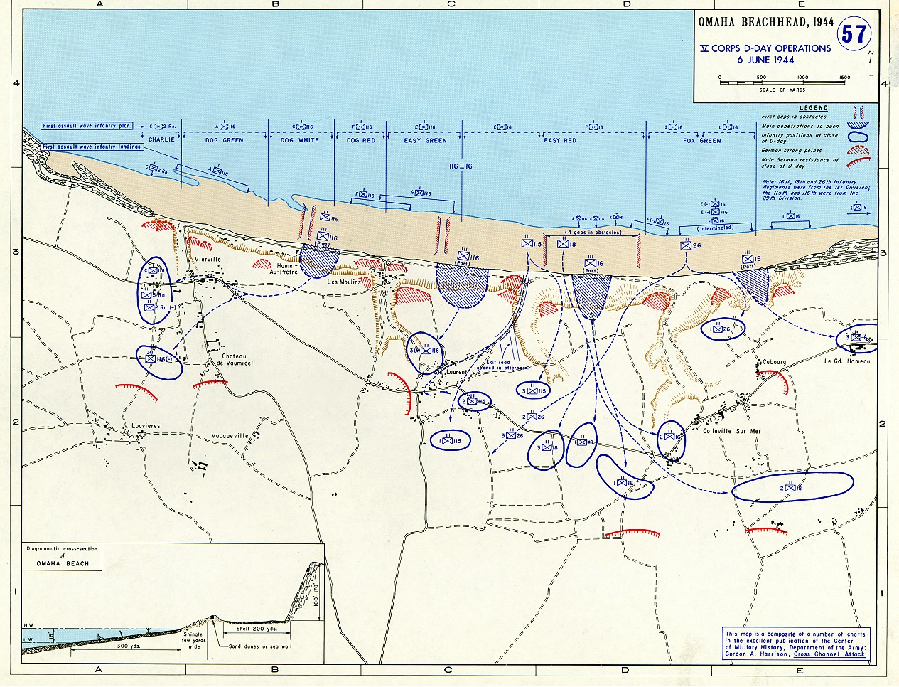 Omaha beachhead 6 June 1944 In 1938 the predecessors of what is today The Department of History at the United States Military Academy began developing a series of campaign atlases to aid in teaching cadets a course entitled, "History of the Military Art." Since then, the Department has produced over six atlases and more than one thousand maps, encompassing not only America’s wars but global conflicts as well. In keeping abreast with today's technology, the Department of History is providing these maps on the internet as part of the department's outreach program. The maps were created by the United States Military Academy’s Department of History and are the digital versions from the atlases printed by the United States Defense Printing Agency. We gratefully acknowledge the accomplishments of the department's former cartographer, Mr. Edward J. Krasnoborski, along with the works of our present cartographer, Mr. Frank Martini. Please be aware that these maps are large in file size and may require substantial download times.